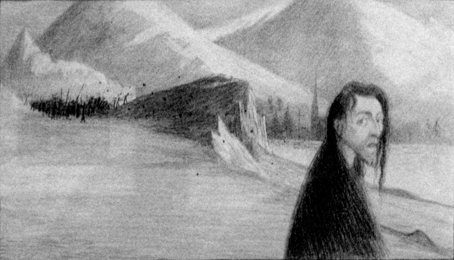 Brand, lithograph on laid paper National Gallery of Canada, Ottawa Gift of the Dennis T Lanigan collection n° 39068 Promotion for the 1895 production of Brand at the Théâtre de l'Œuvre; more information. Version showing marginal printing that identifies relationship to the Ibsen play